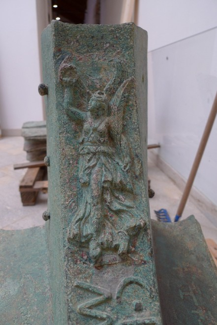 Egadi rostrum of ancient ship from a punic war